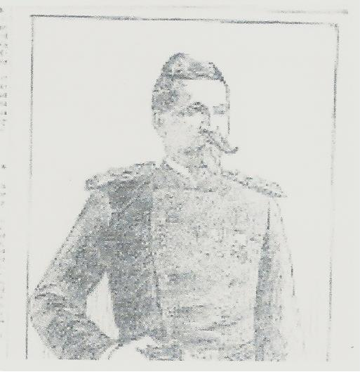 Portrait of US army Officer Melville C. Wilkinson as it appeared in the The Saint Paul Globe October 7, 1898.